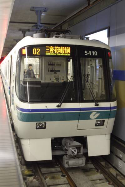 Kaigan Line train